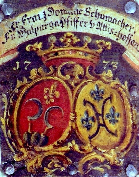 Allianz Schumacher-Pfyffer v. Altishofen